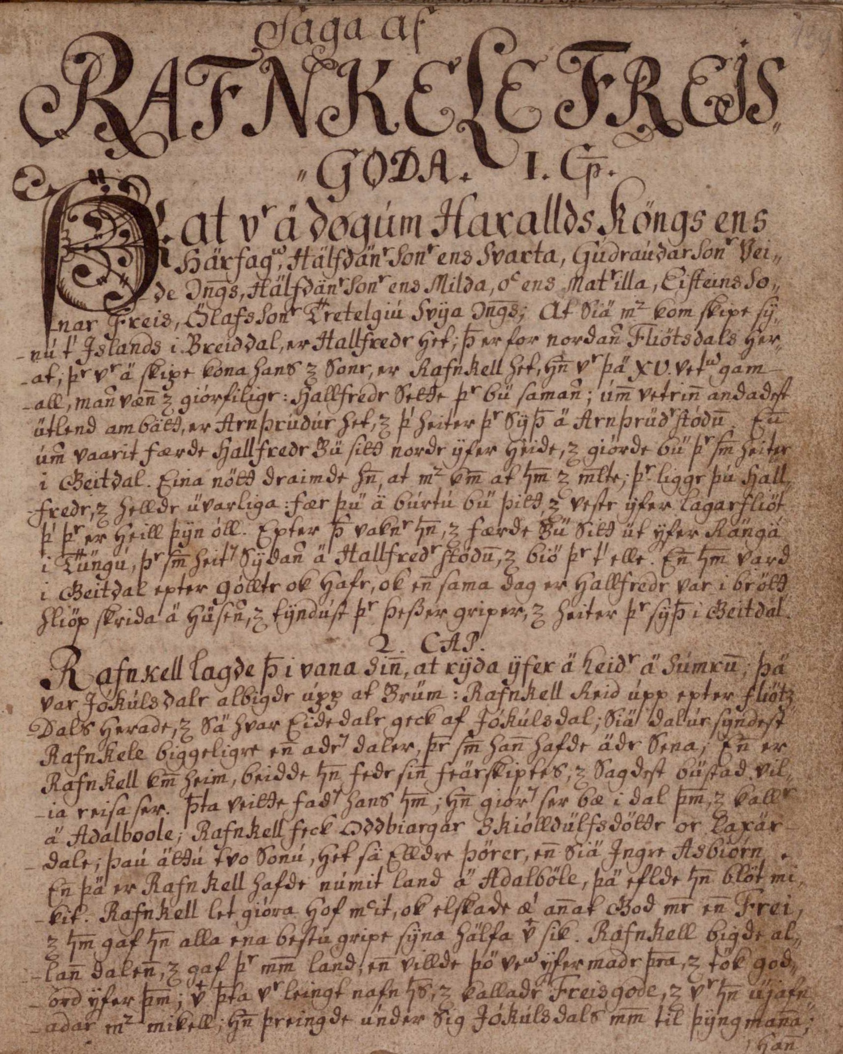 Hrafnkels saga - X Century